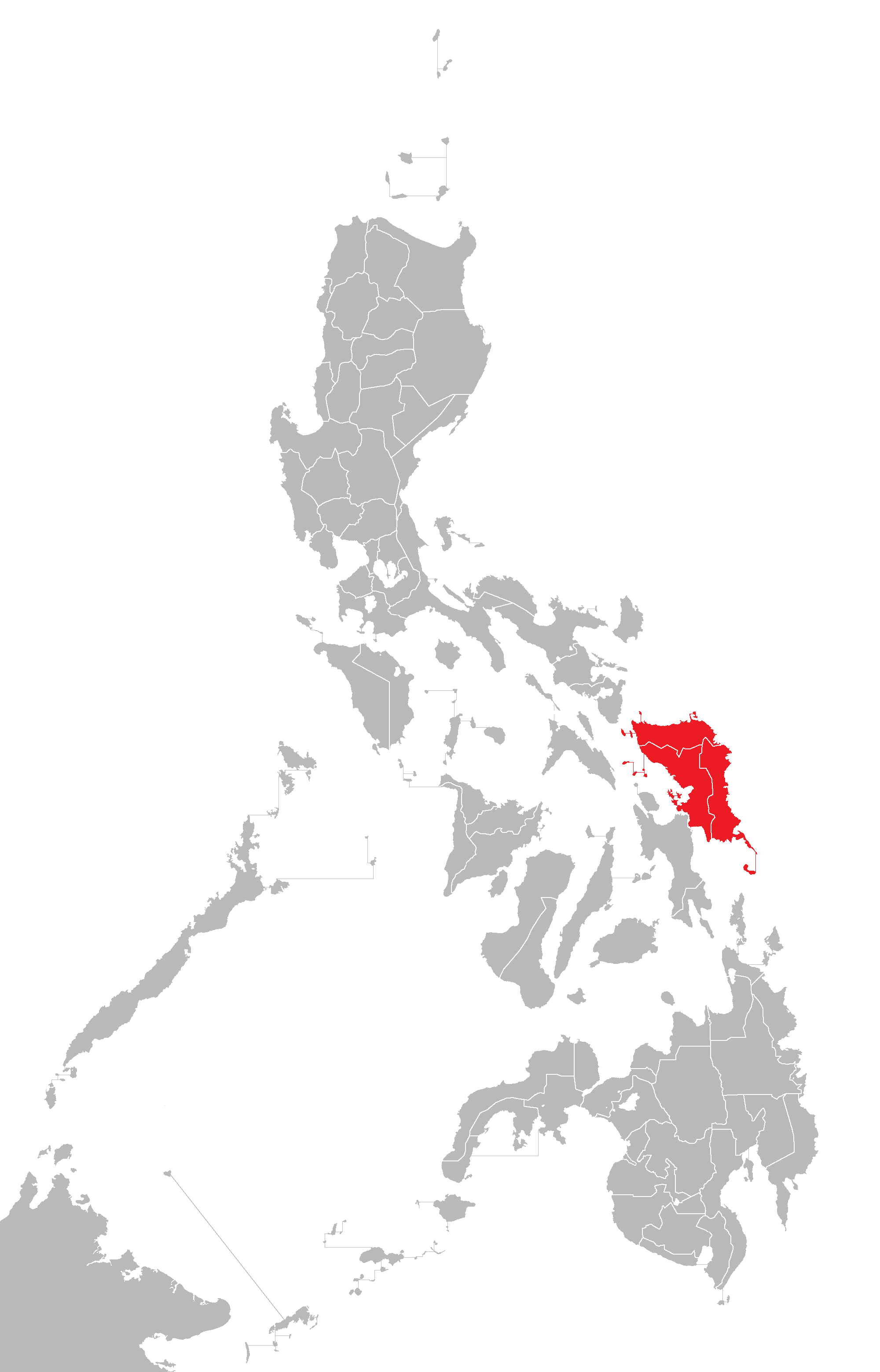 Derived from File:BlankMap-Philippines.png Map of Samar Island In red